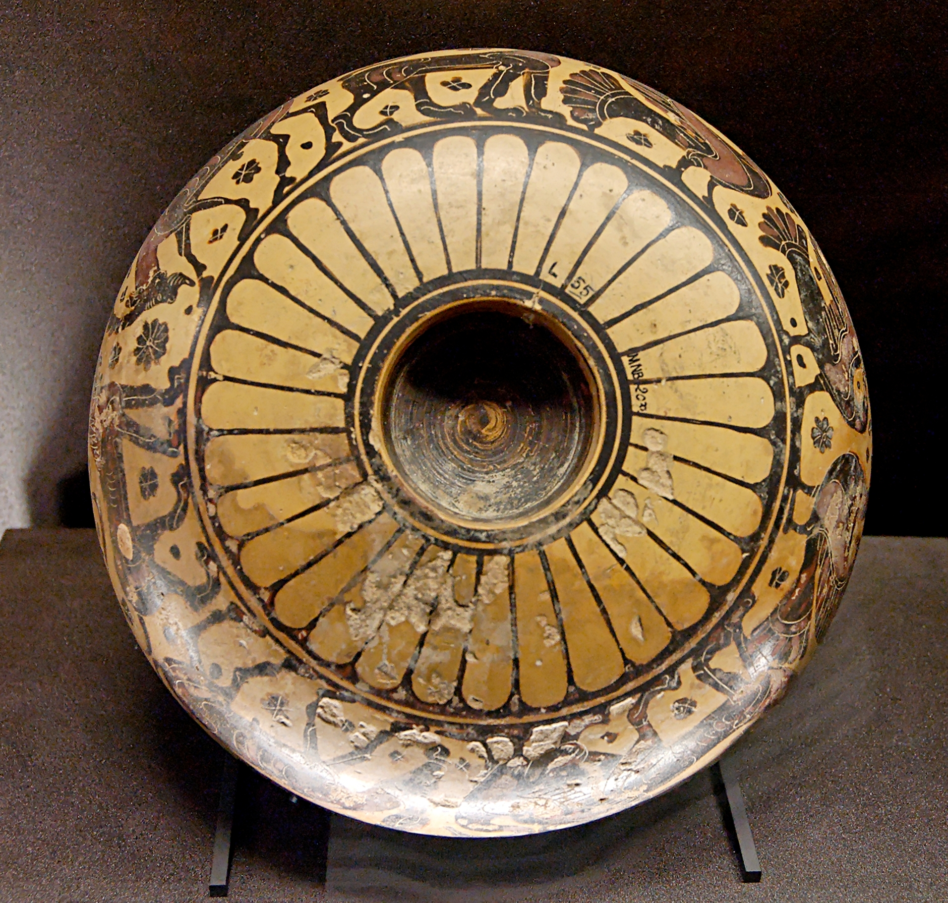 Phiale, Corinthian black-figure Phiale, ca. 600 BC. Found in Corinth.